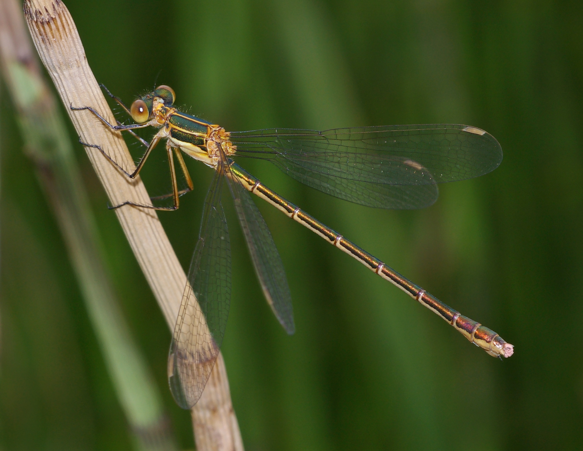 Female specimen of the Emerald Damselfly (Lestes sponsa).